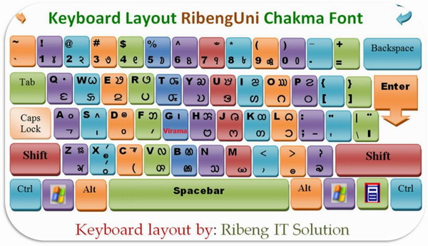 Chakma